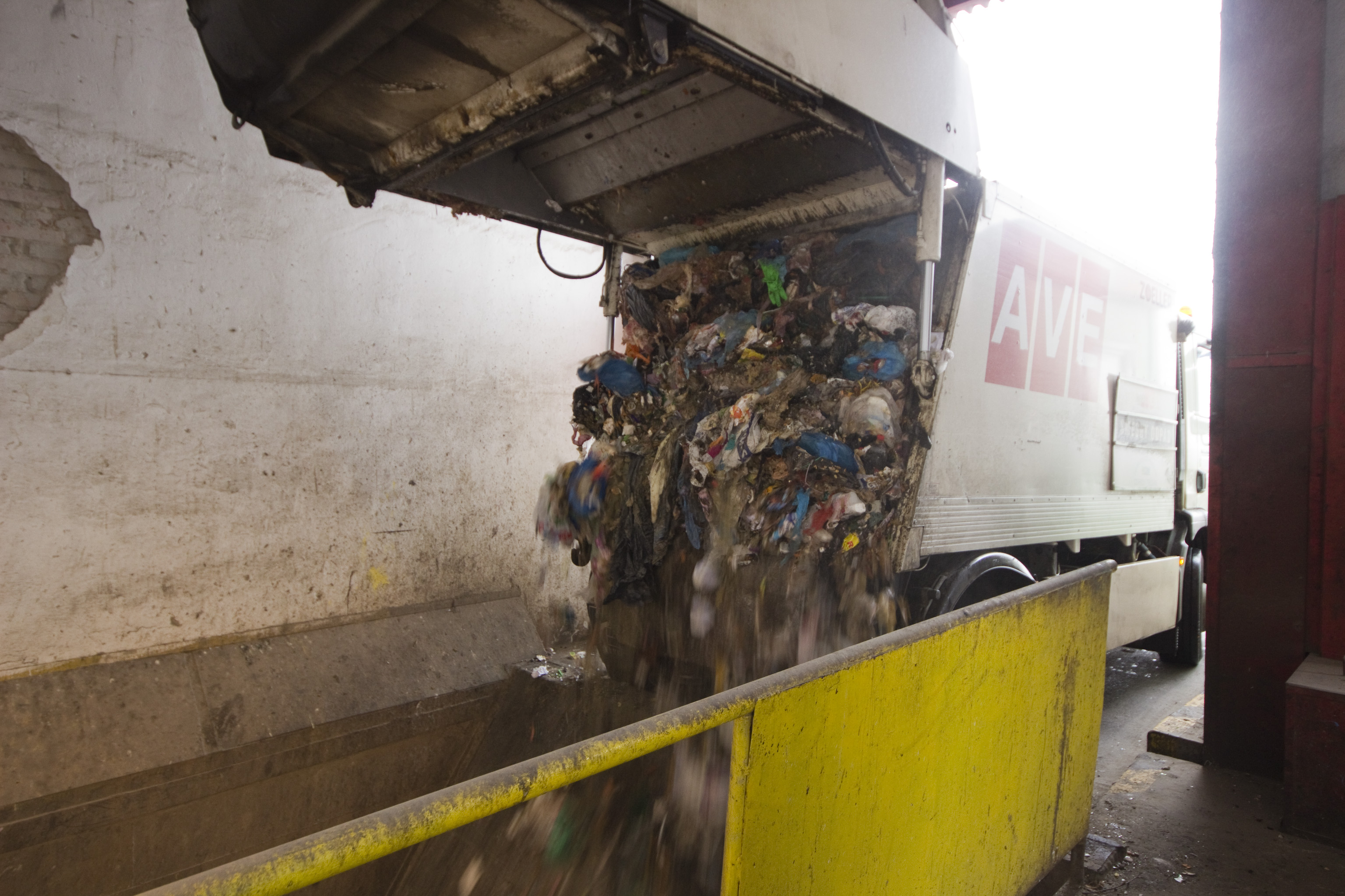 Malešice incinerator, Prague Tato série fotografií vznikla za laskavého svolení společnosti Pražské služby